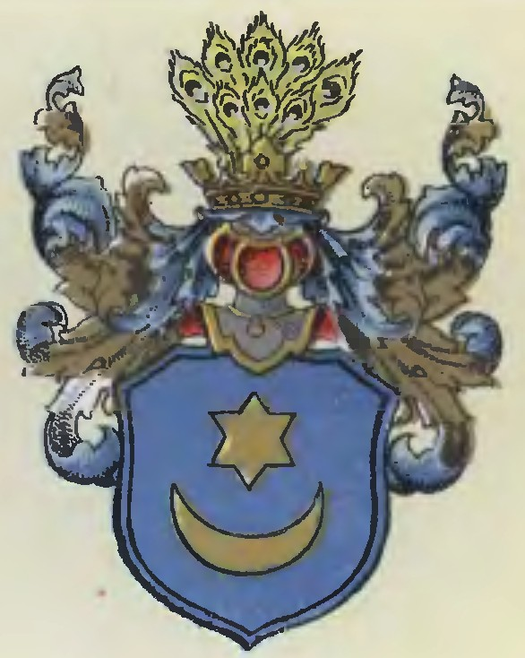 Leliwa coat of arms by Zbigniew Leszczyc, 1908